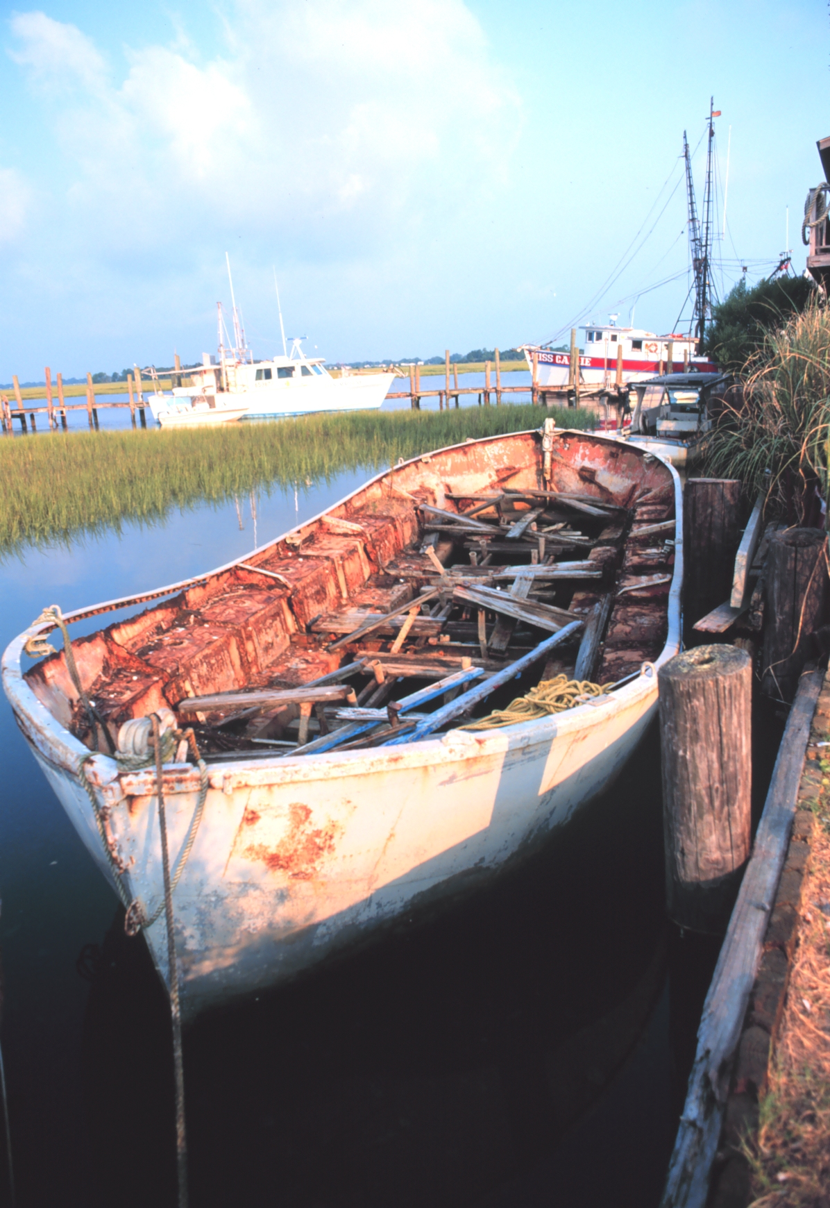 Public domain photograph. NOAA Central Library. National Oceanic & Atmospheric Administration (NOAA). Image ID: line1440, America's Coastlines Collection. Location: Folly Island, South Carolina. Photographer: Mr. William B. Folsom, NOAA, NMFS. Caption: derelict boat rotting away in the wetlands of Folly Island Image found at